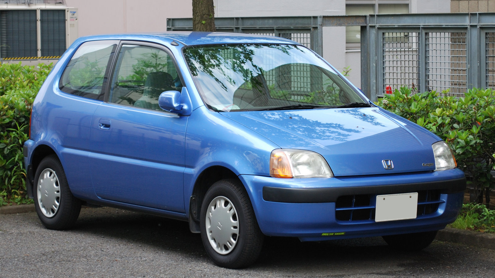 Honda Logo (1996/10 - 1998/10)